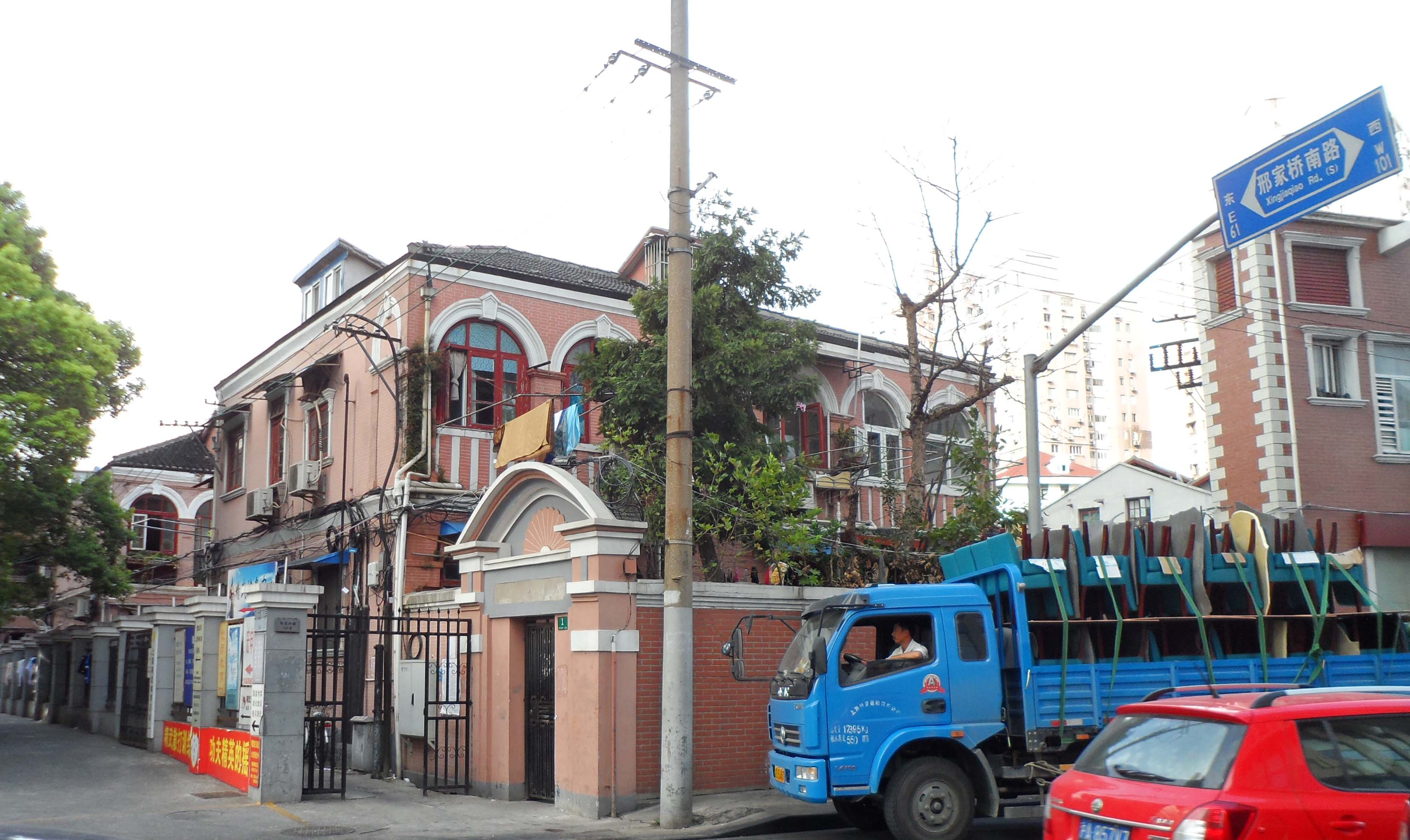 Former Japanese military brothel building in Shanghai (大一沙龙） 东宝兴路125弄